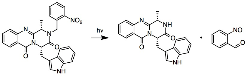 ent-Fumquinazoline